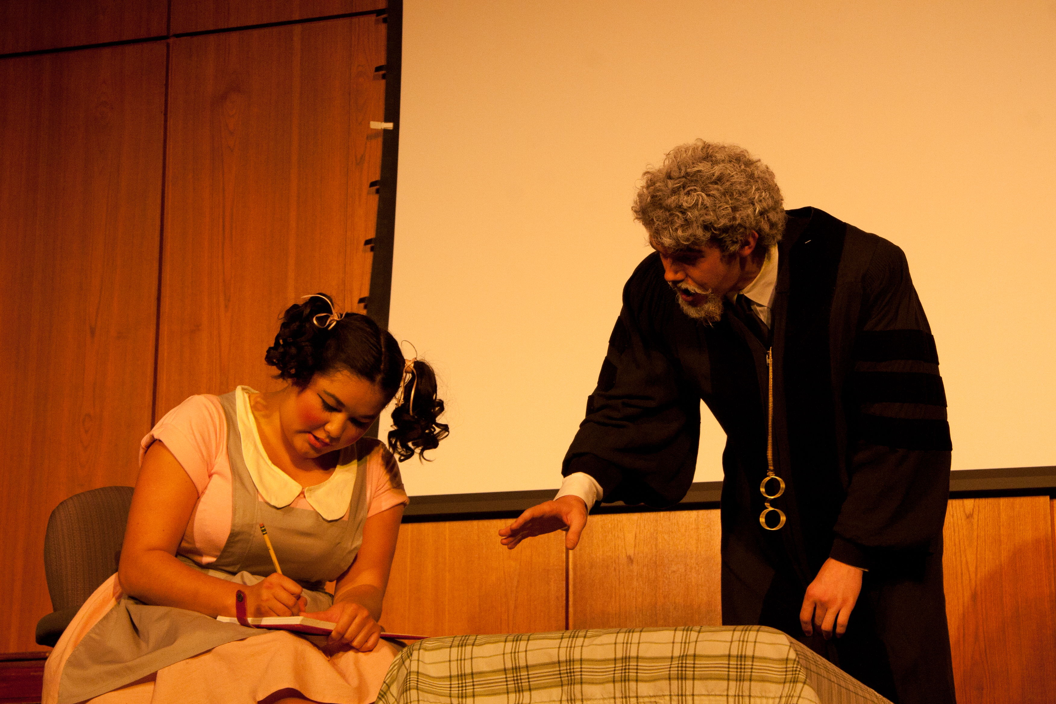 Scene from a November 16, 2011 production of Ionesco's The Lesson, at Shimer College in Chicago. Pictured are Mey Lee (left) and Vincent Padden (right).